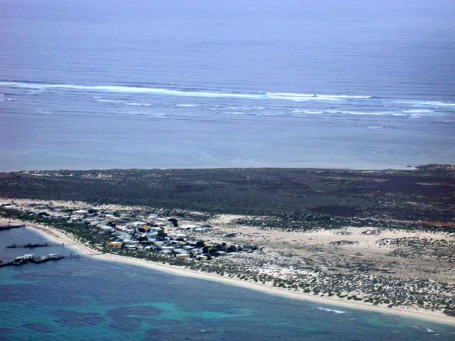 This is an aerial photograph of North Island in the Houtman Abrolhos. The perspective is from the east of the island, looking west across the island's southern half.